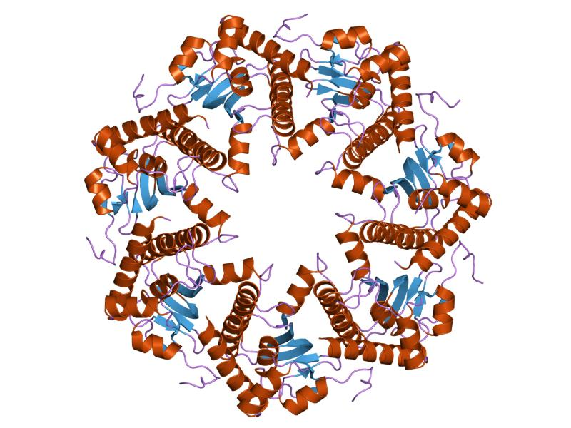 Cartoon representation of the molecular structure of protein registered with 2f6i code.